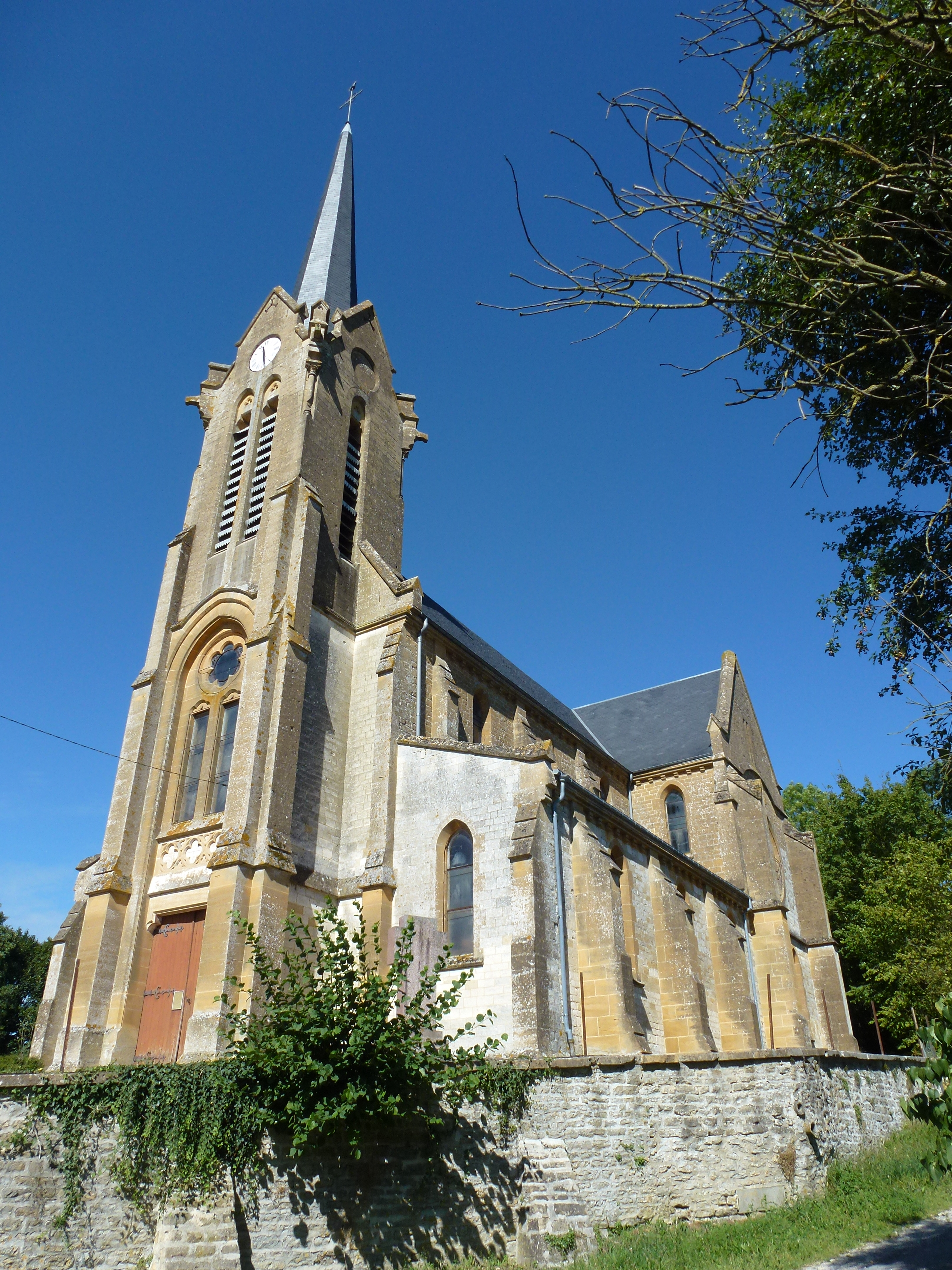 Guincourt (Ardennes) église